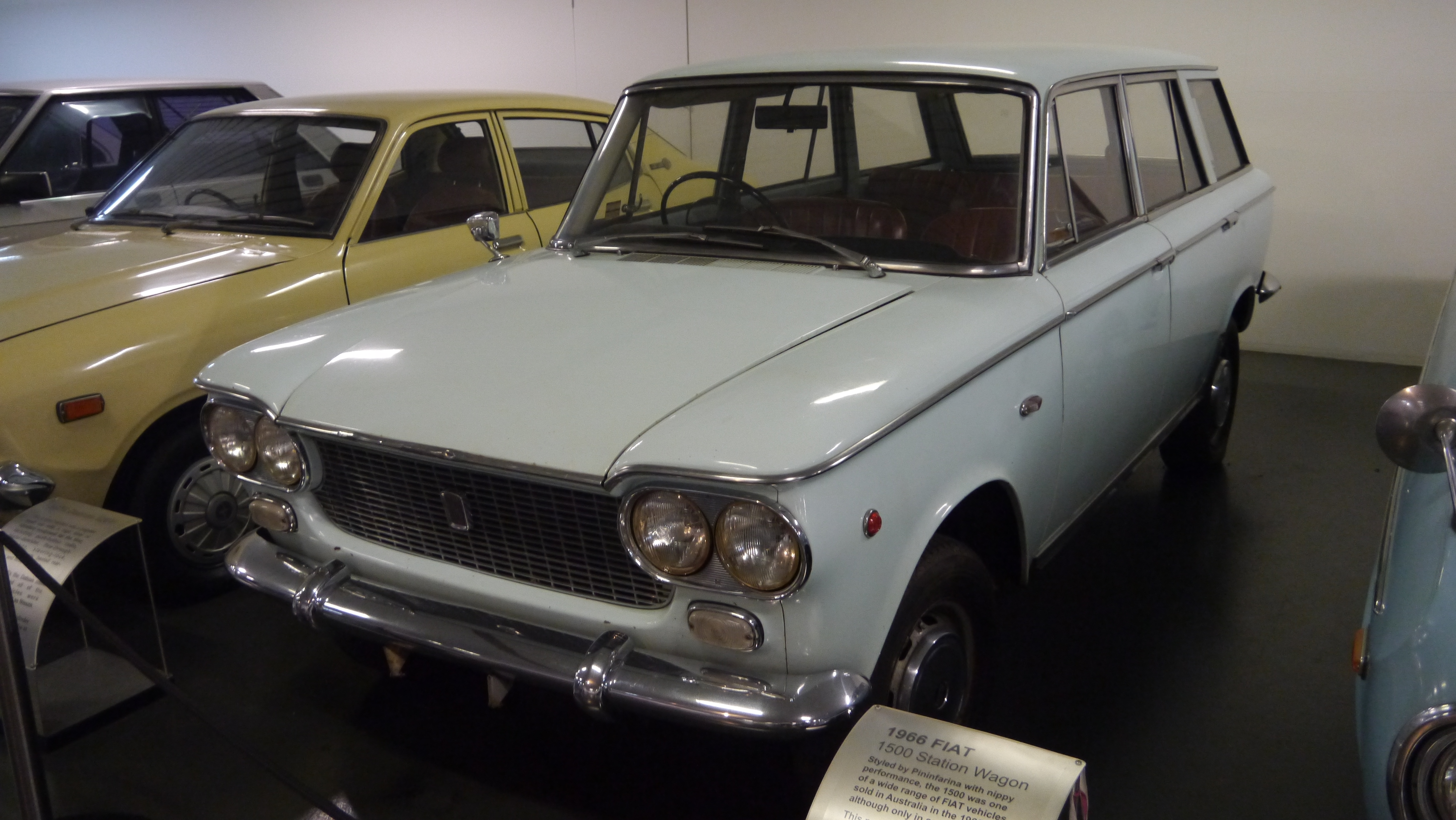 Fiat 1500